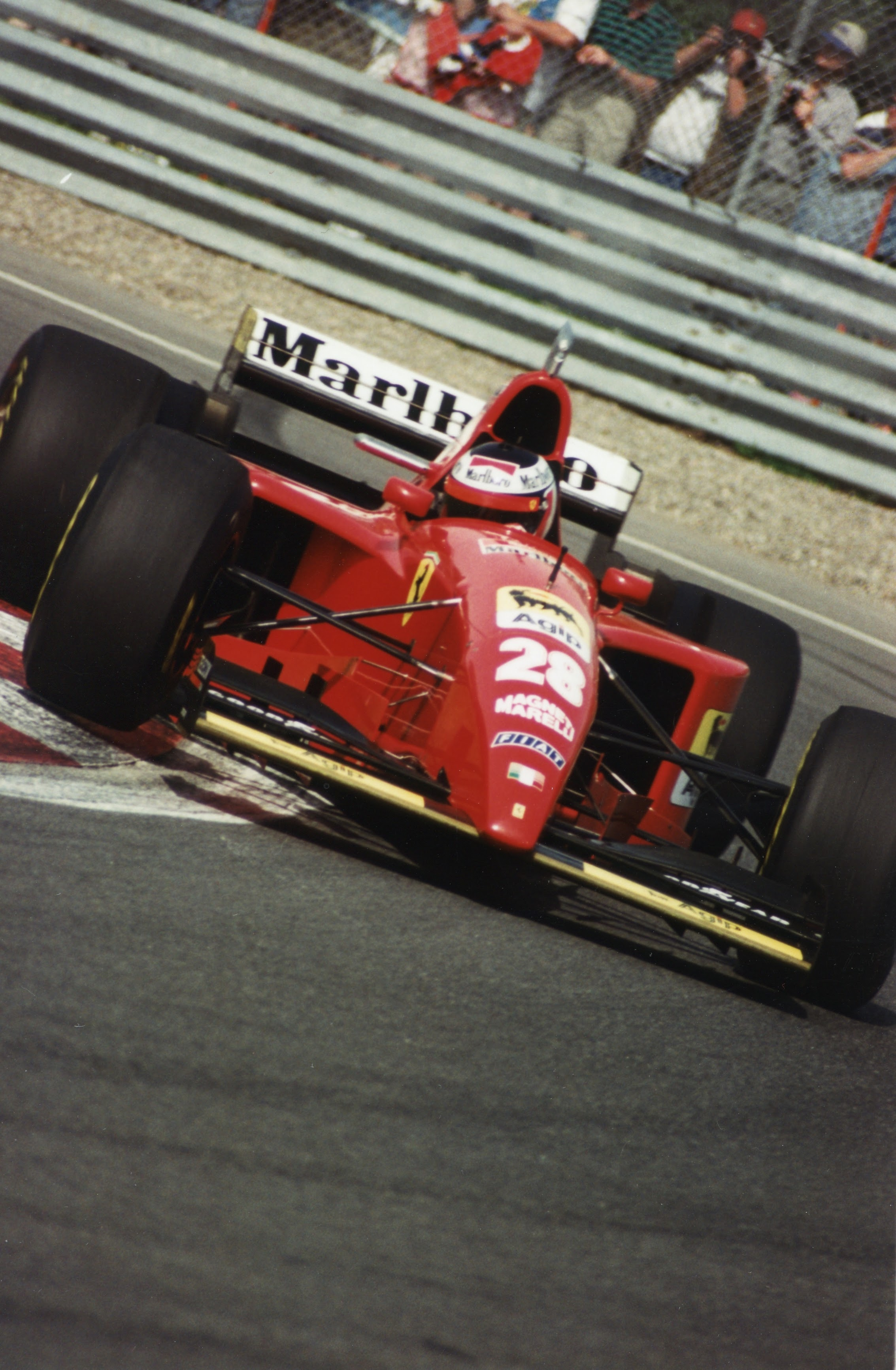 Gerhard Berger, Montreal, 1995